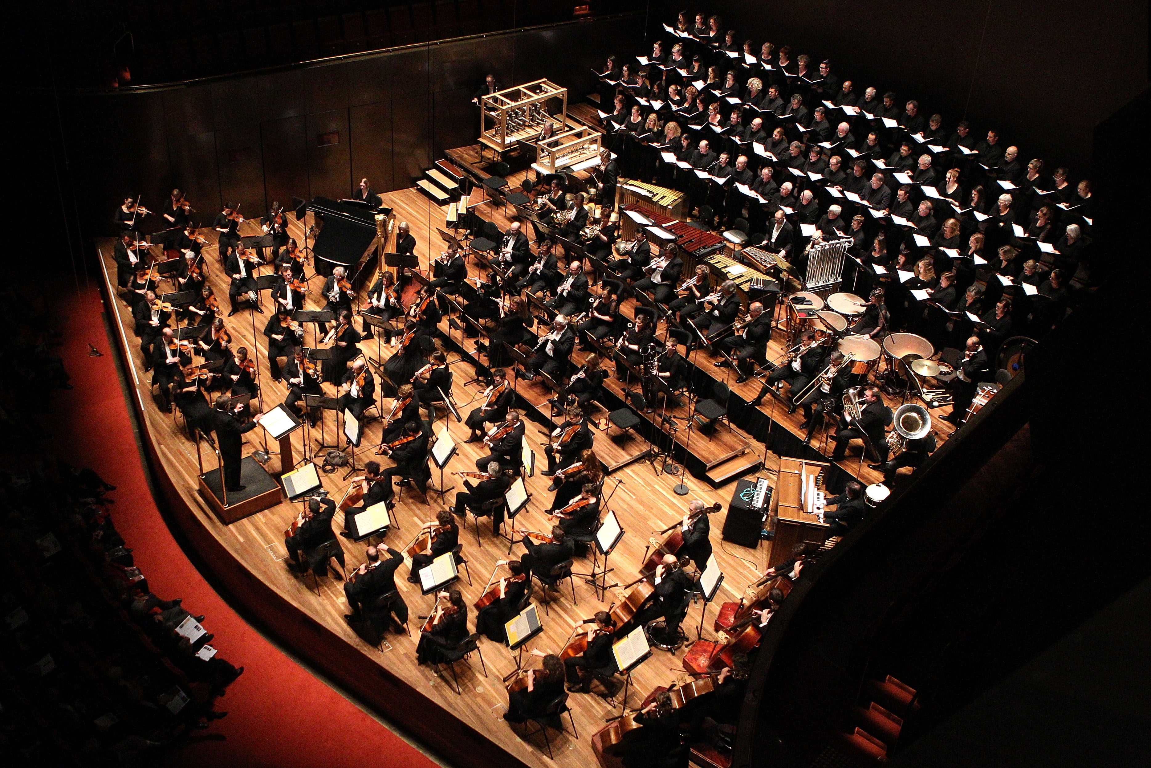 Sir Andrew Davis conducts the MSO and MSO Chorus